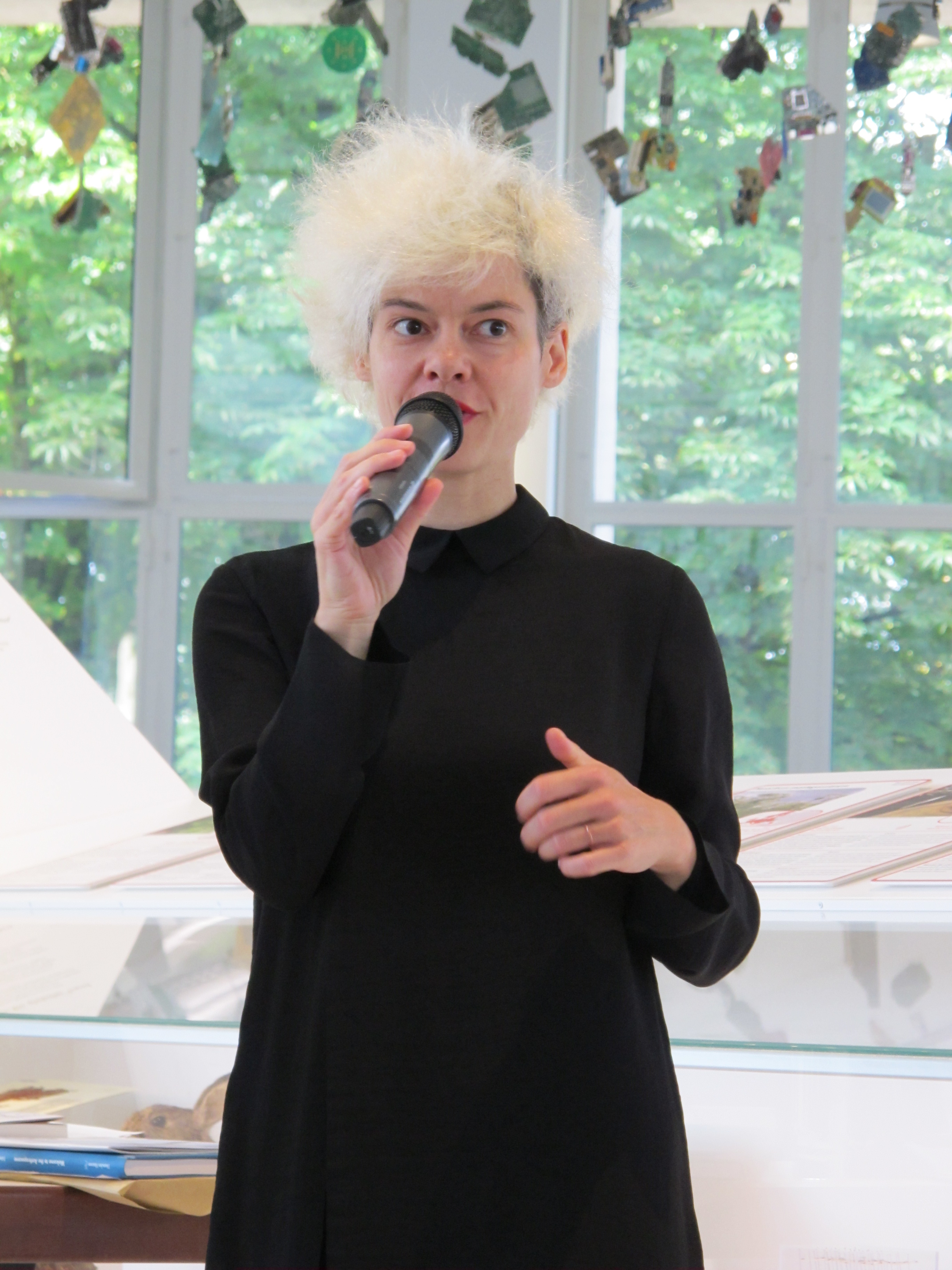 Daniela Seel presenting the book in the rooms of the special exhibition "Willkommen im Anthropozän. Unsere Verantwortung für die Zukunft der Erde"